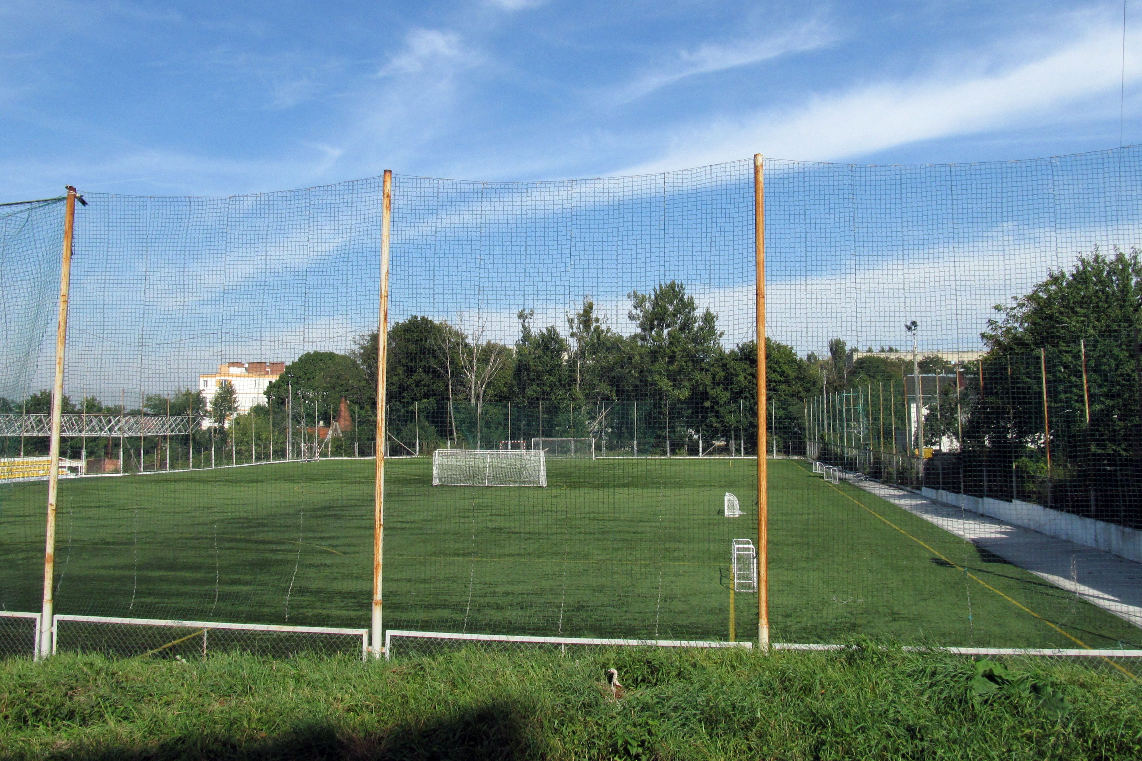 Karpaty Football Academy Stadium (UFK) in Lviv, Ukraine